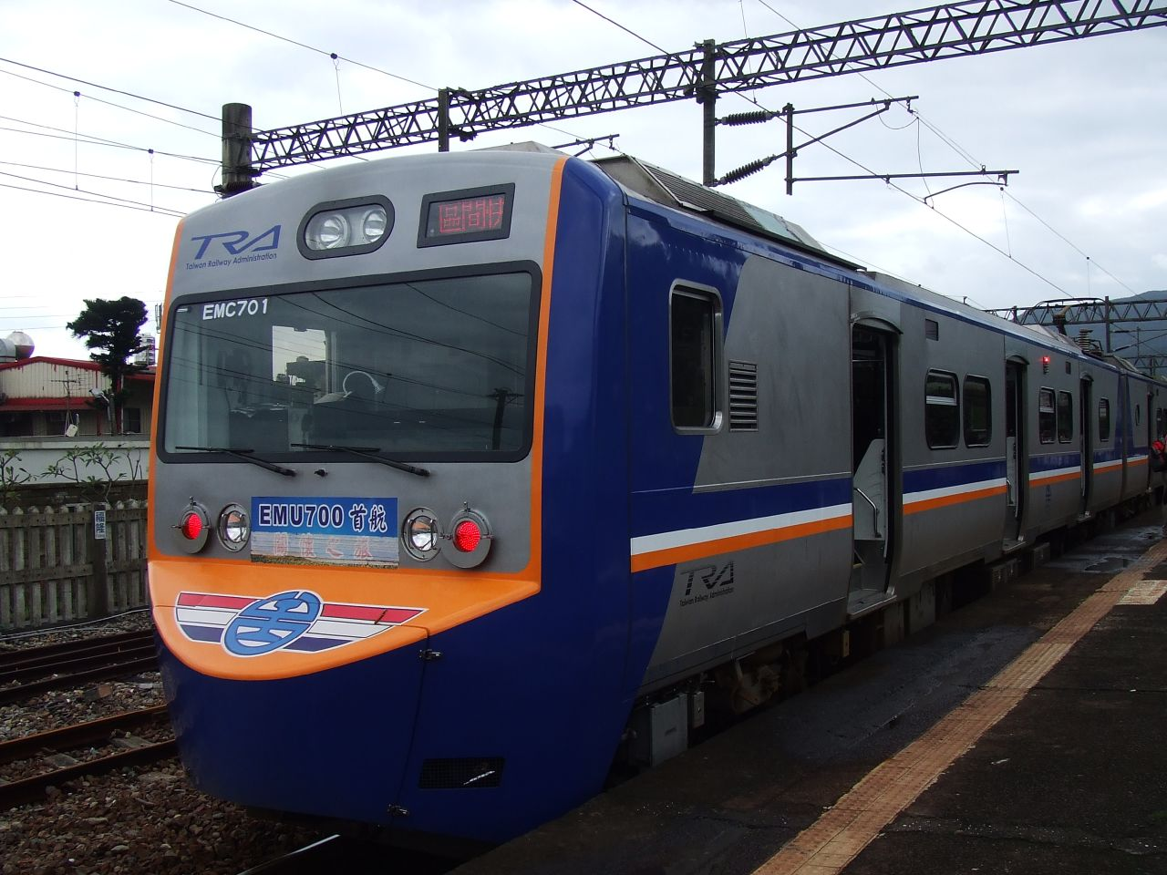 Taiwan Railway Administration EMC701 at Fulong Station.